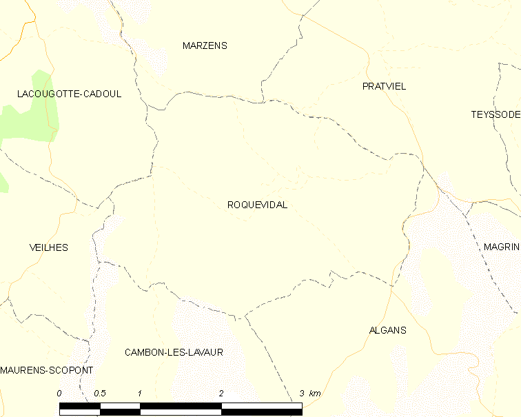 Map of French municipality Roquevidal